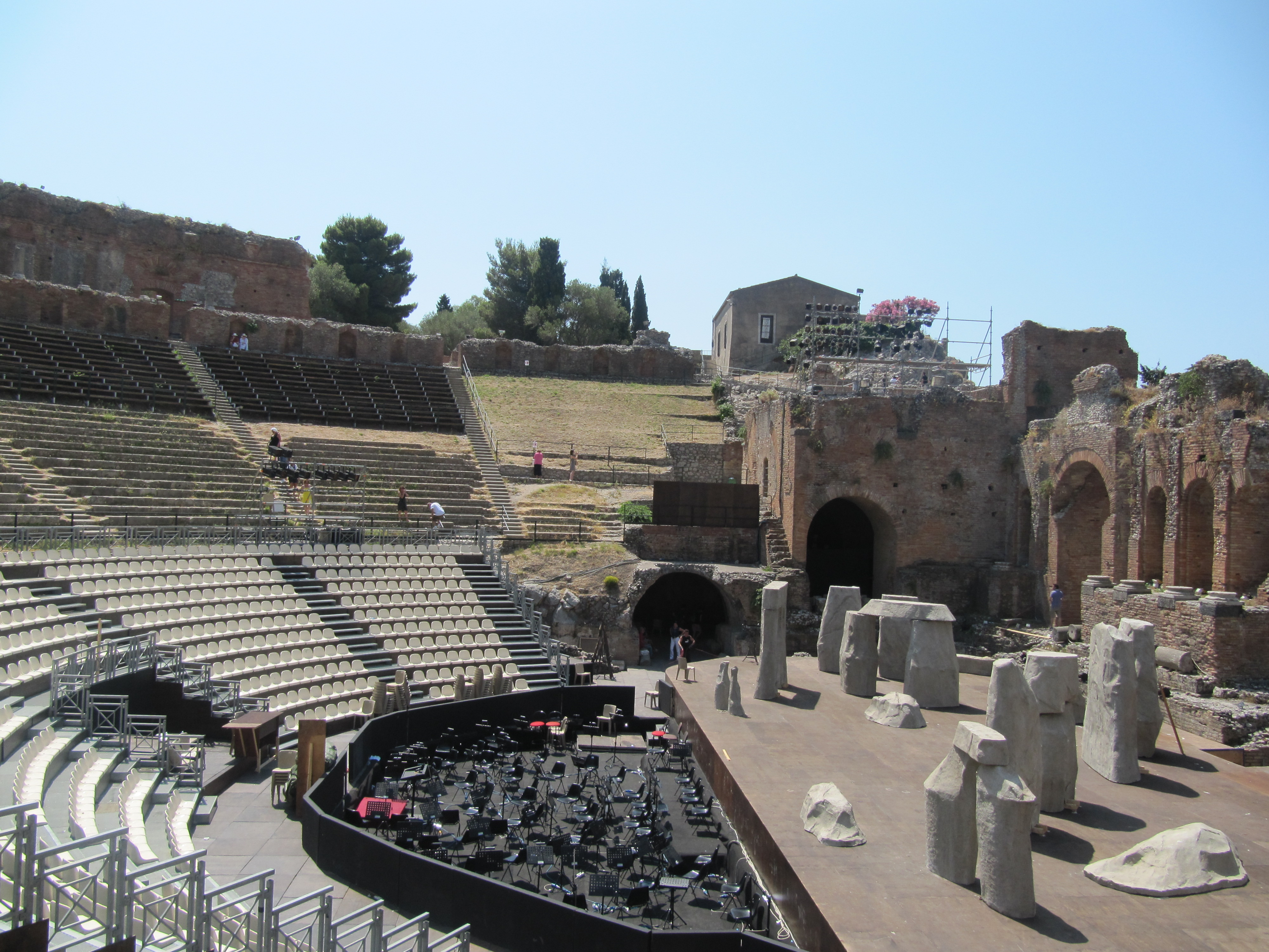 Taormina, Sicily, Italy. Ancient greek theatre.